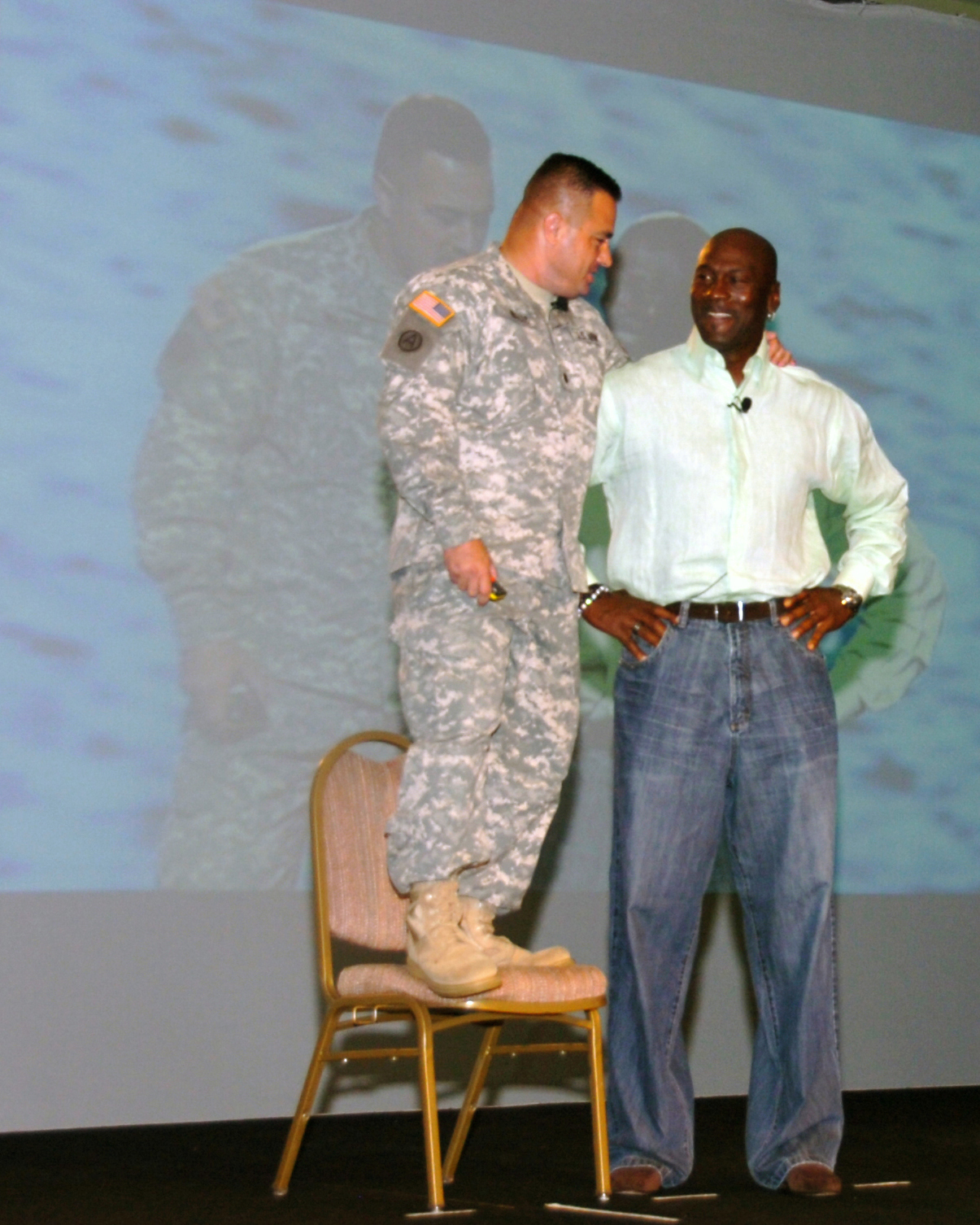 A National Guard Citizen-Soldier compares himself to 6-foot-6 Michael Jordan in Orlando, Fla., as the NBA legend and avid motorcyclist prepares to unveil the 2009 No. 23 National Guard Michael Jordan Motorsports Superbike to more than 2,100 cheering Citizen-Soldiers on Oct. 9, 2008. (U.S. Army photo by Staff Sgt. Jim Greenhill) (Released)